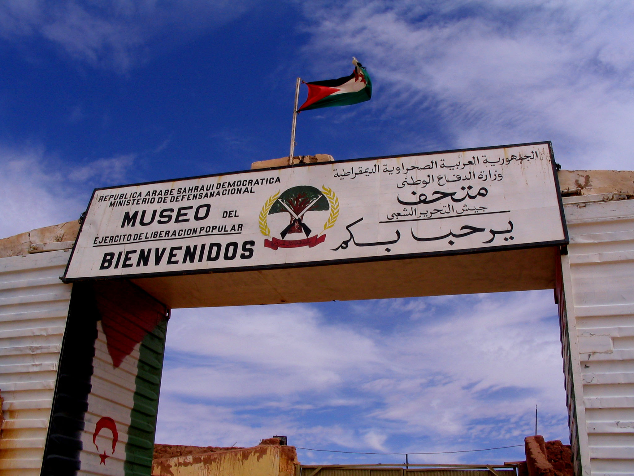 People's Liberation Army Museum - The saharawi government set up this museum to show the warfare seized to the Moroccan army during the wartime (1976-1991). This exhibit also shows some documents on the first actions carried out by the POLISARIO Front since 1973 initially against Spanish colonization and, later, against Moroccan occupation.